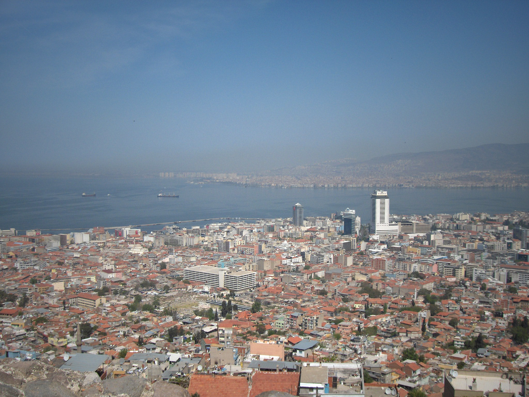 Sight on izmir from Kafidekale; in the middle of the image one can see the agora